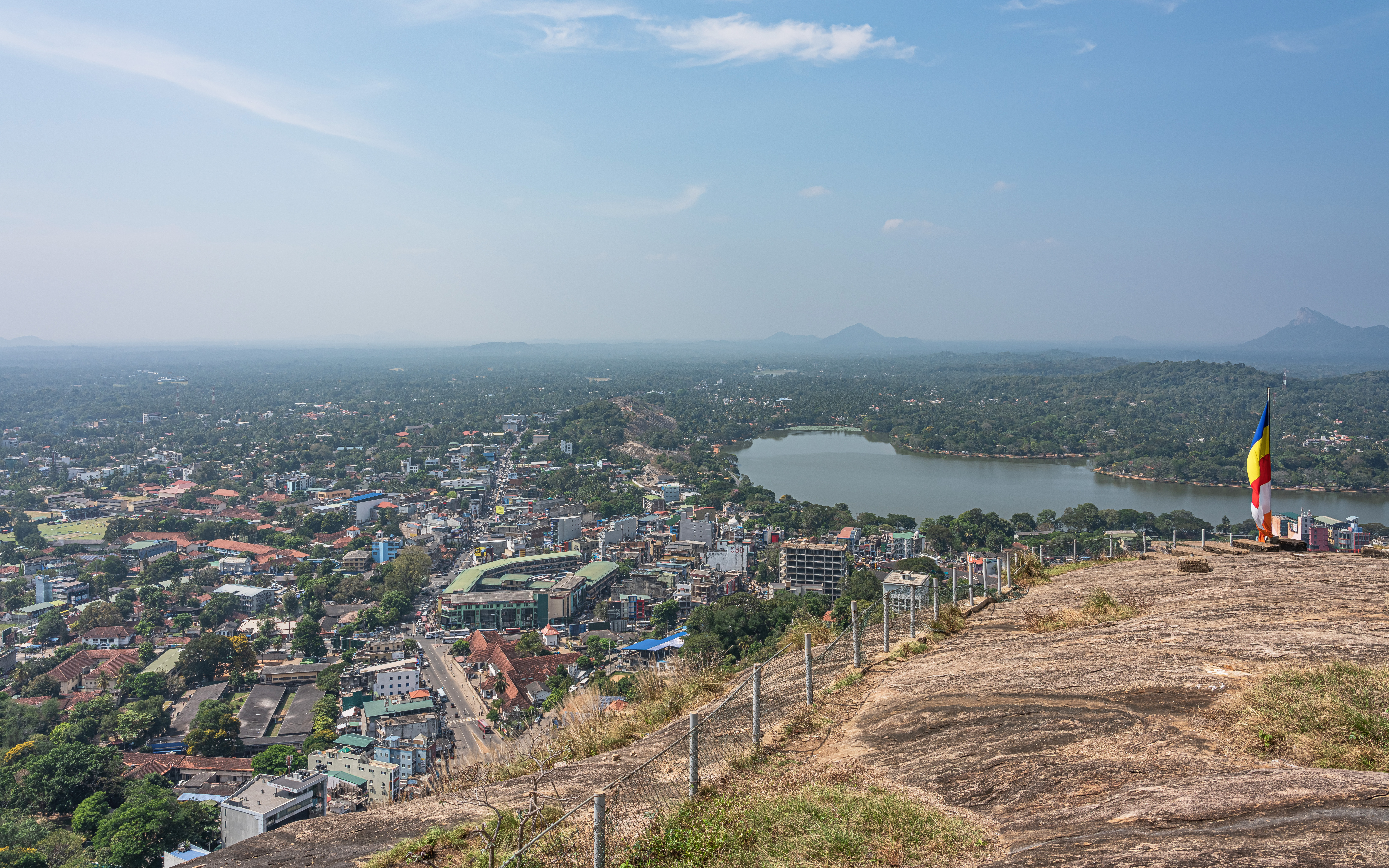 View from Elephant Rock in Kurunegala, Sri Lanka